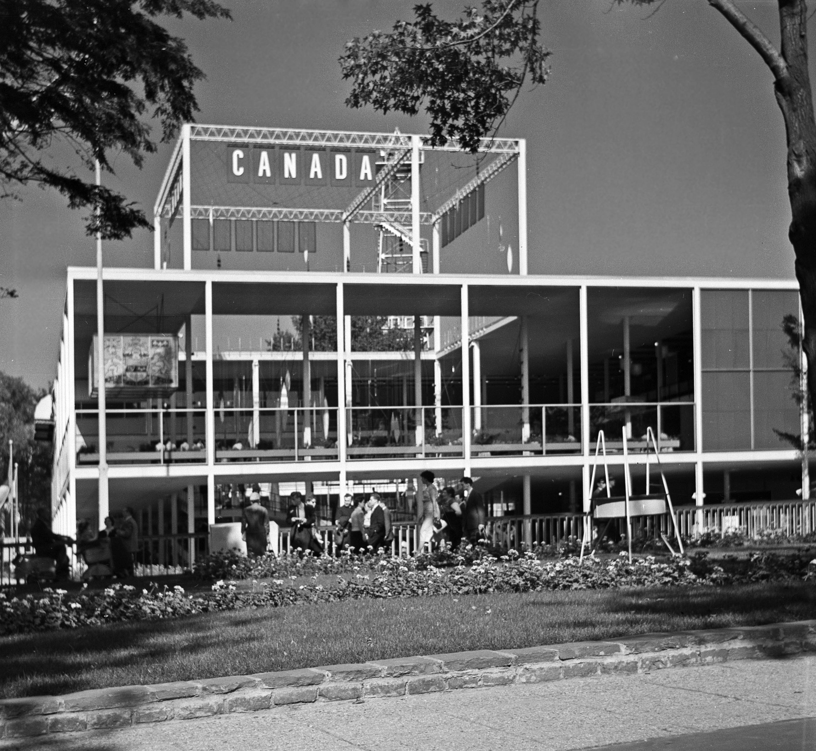 Expo 1958 building of Canada